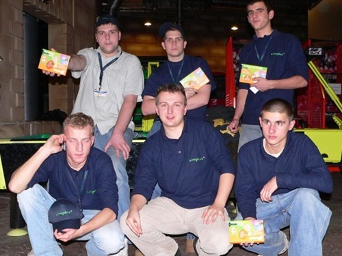 Team Frag eXecutors.Simplus (Above: Wojciech "SkejtoN" Murawski, Mateusz "OzoN" Glowinski, Piotr "pitek" Radomski, below: Jakub "tjb" Barczyk, Mariusz "RedruM" Grzegorzewski, Grzegorz "minipitek" Radomski)